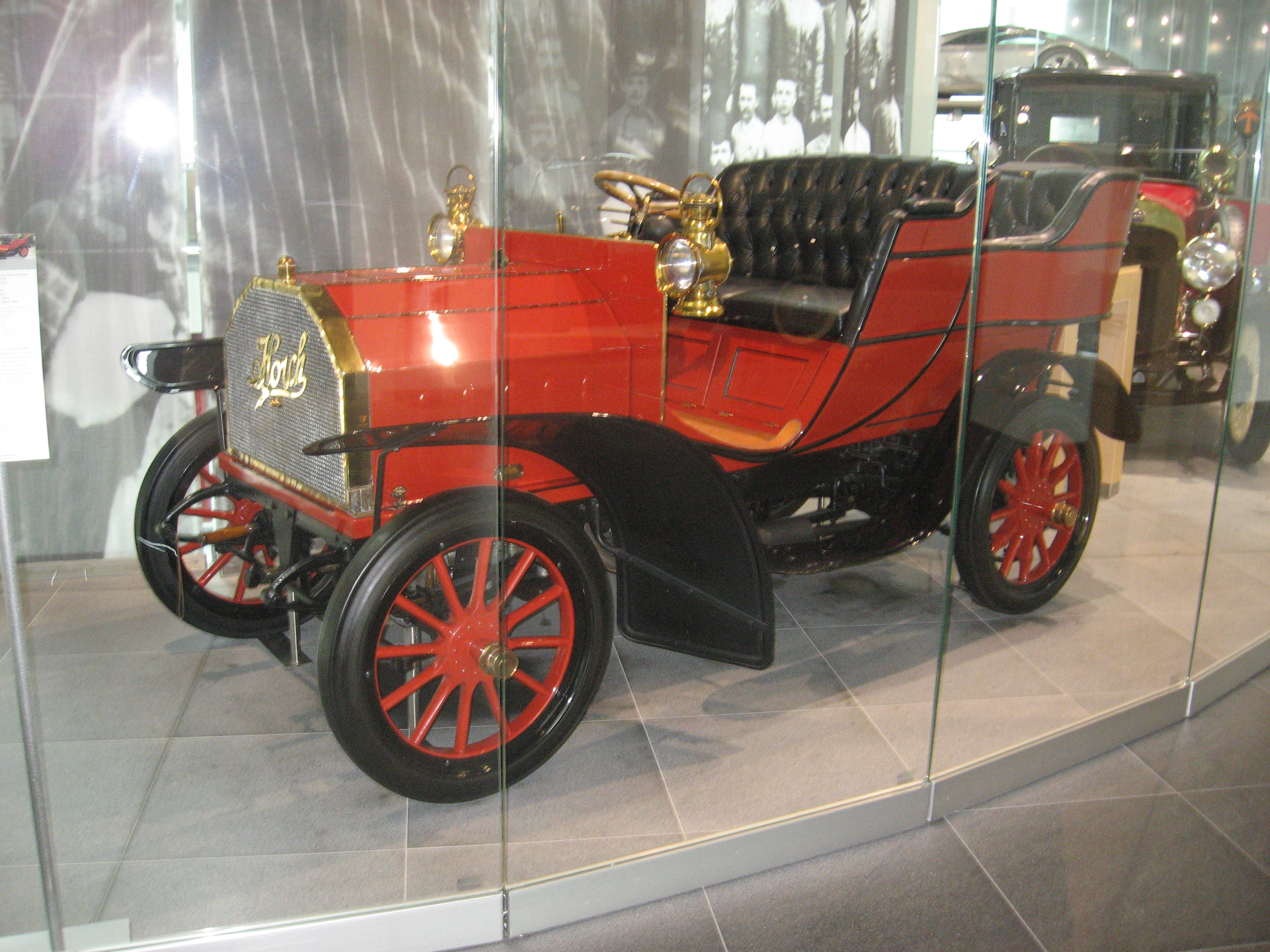 Subject: Horch 10/12 PS Date:June 13th, 2011 Place/Country: Audi Museum, Ingolstadt, Germany I release all rights in the public domain.